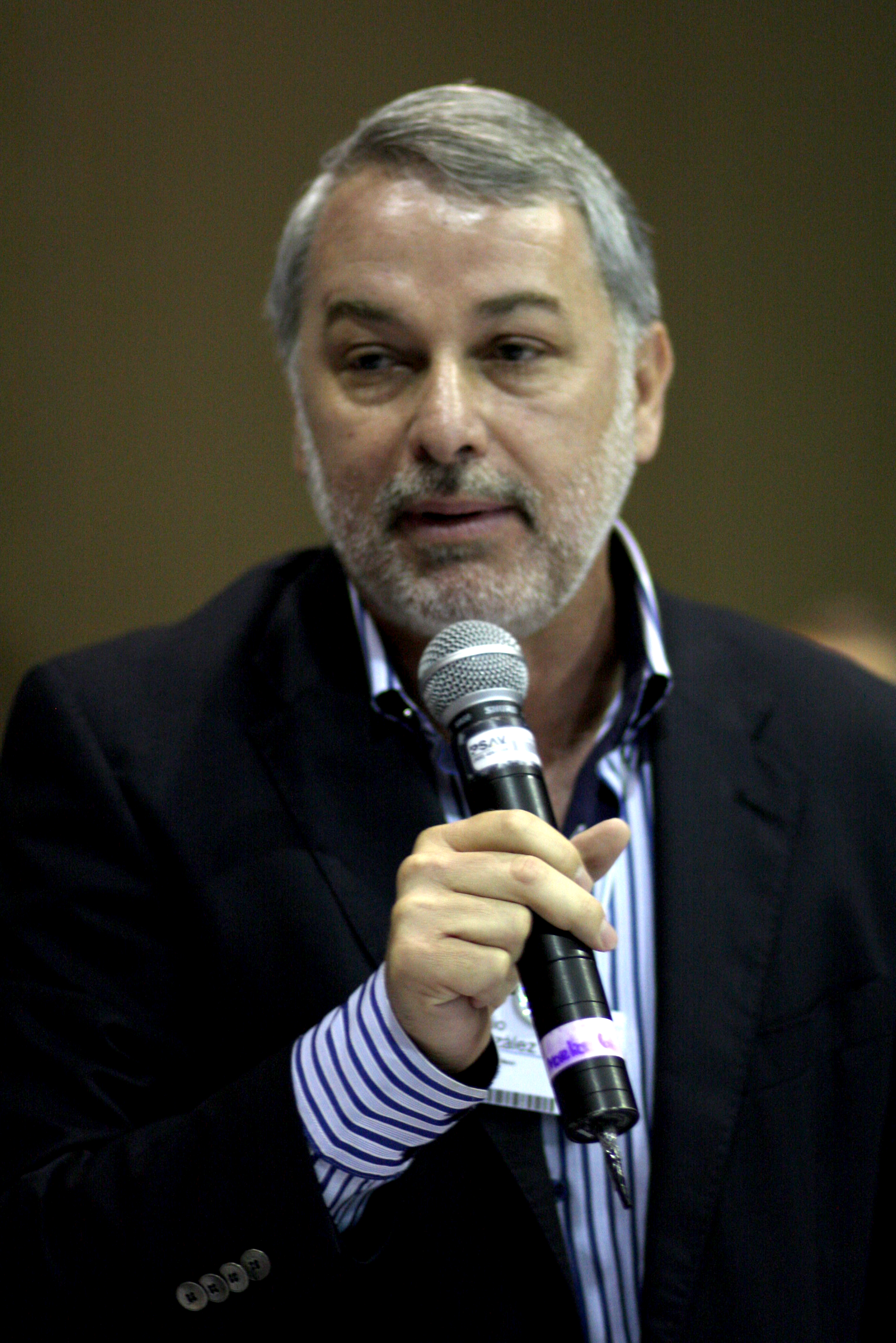 PUERTO VALLARTA/MEXICO, 18APR12 Emilio González Márquez , Governor of Jalisco, Mexico captured during the session 'Developing Smarter Cities' Copyright World Economic Forum ( by Josef Kandoll Wepplo